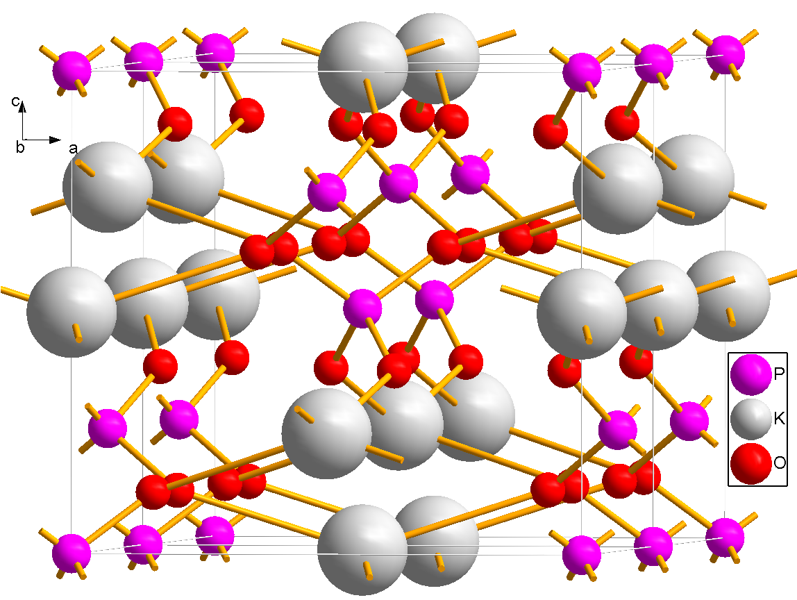 Two unit cells of tetragonal KH2PO4 viewed close to the b axis. Structure parameters from (1987). "Phase Transitions in Mixed Crystal System K1-x(NH4)xH2PO4". Journal of the Physics Society Japan 56 (2): 577.